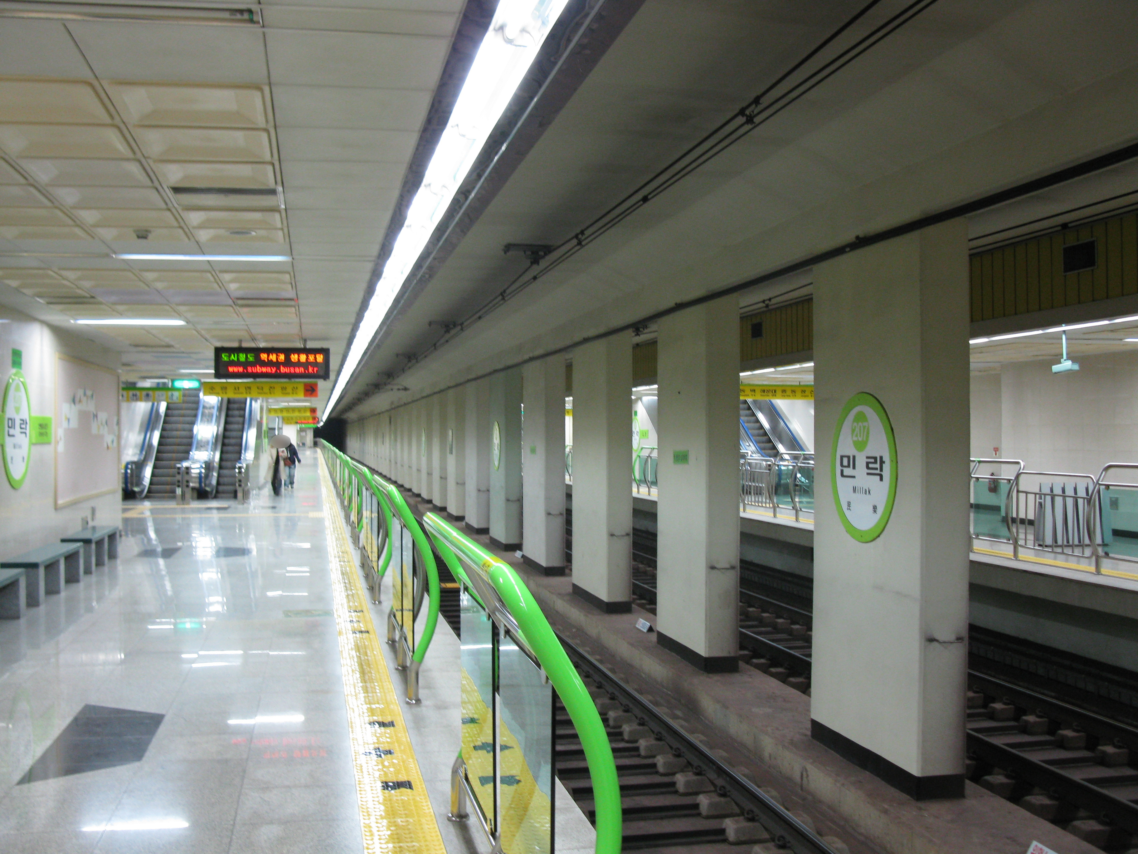 Millak Station platform (Busan Subway Line 2)